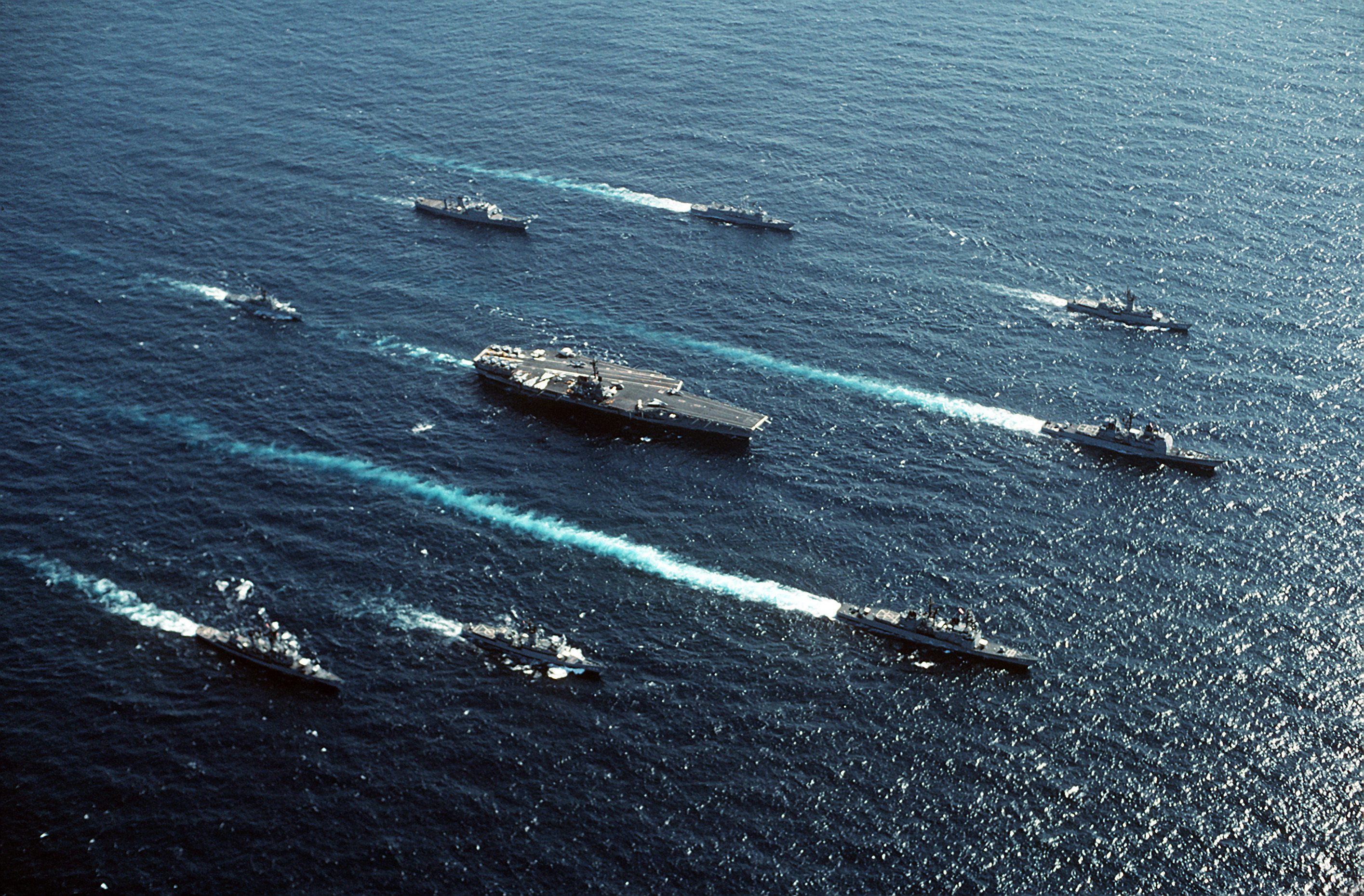 An aerial starboard bow view of the aircraft carrier USS Forrestal (CV-59) underway, surrounded by its battle group for Fleet Week.